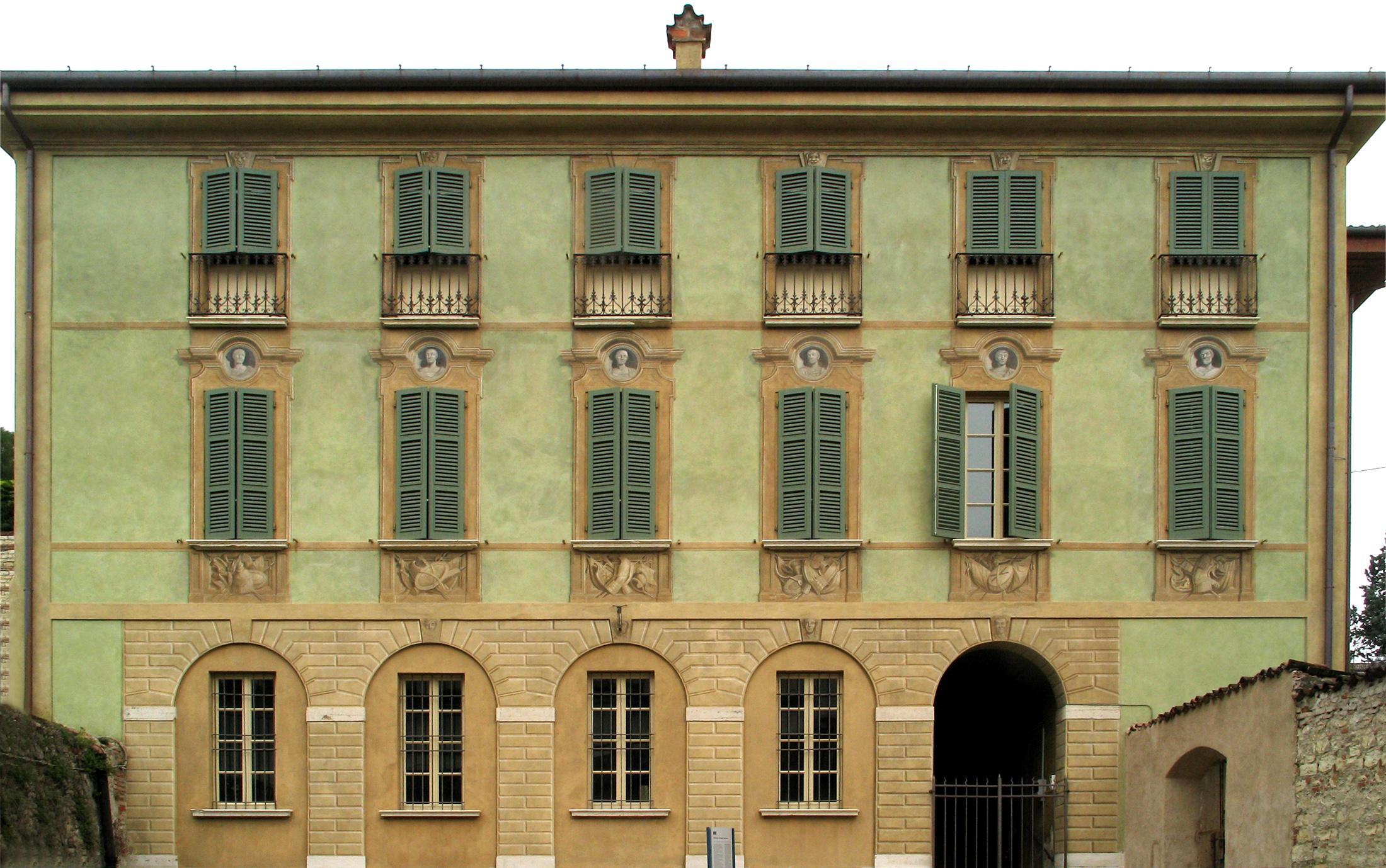 Mansion in Brescia/Italy - false architecture